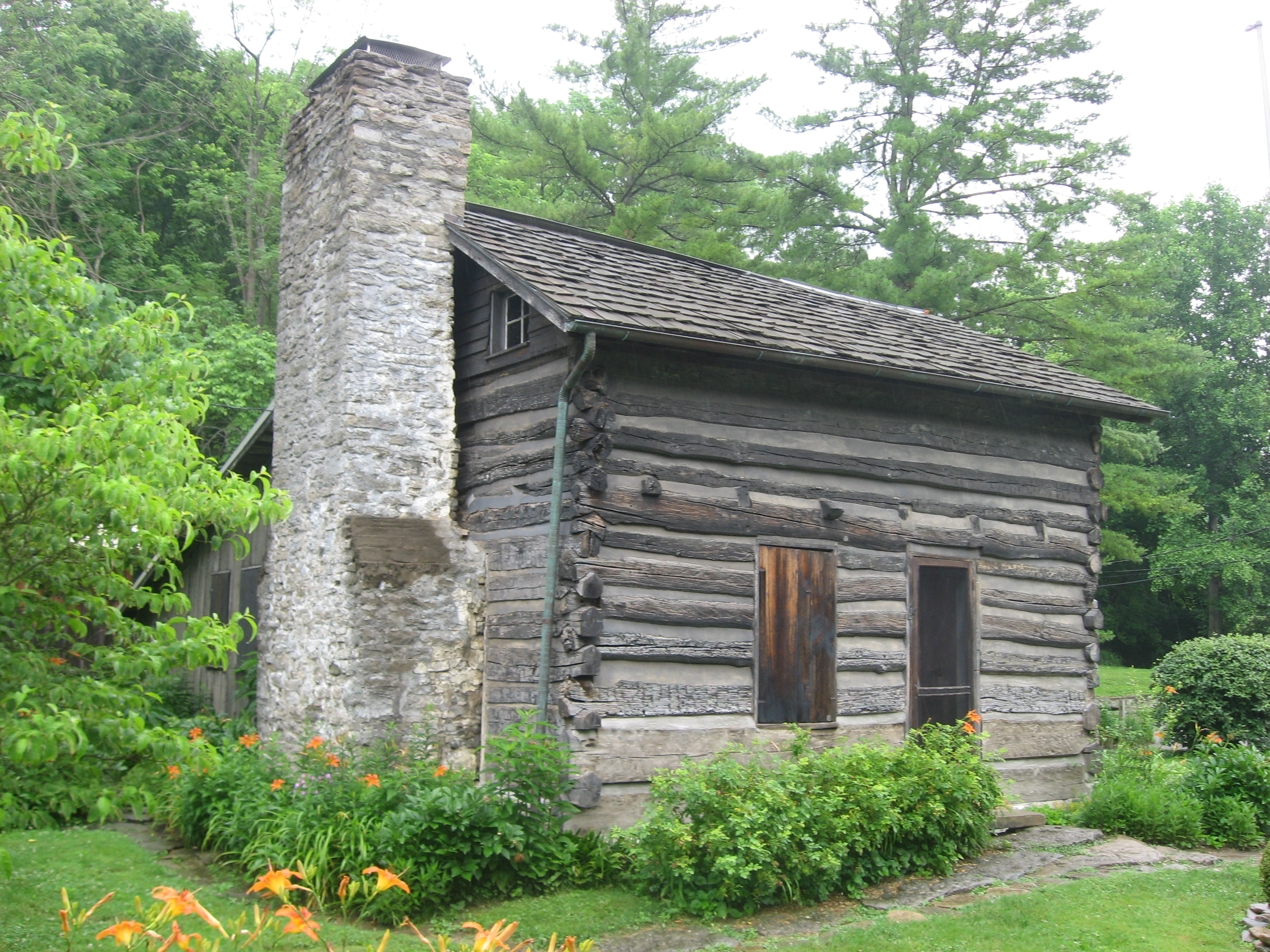 Front and side of the Miller-Leuser Log House, located at 6550 Clough Pike in Anderson Township, Hamilton County, Ohio, United States. Built in 1796, it is listed on the National Register of Historic Places.